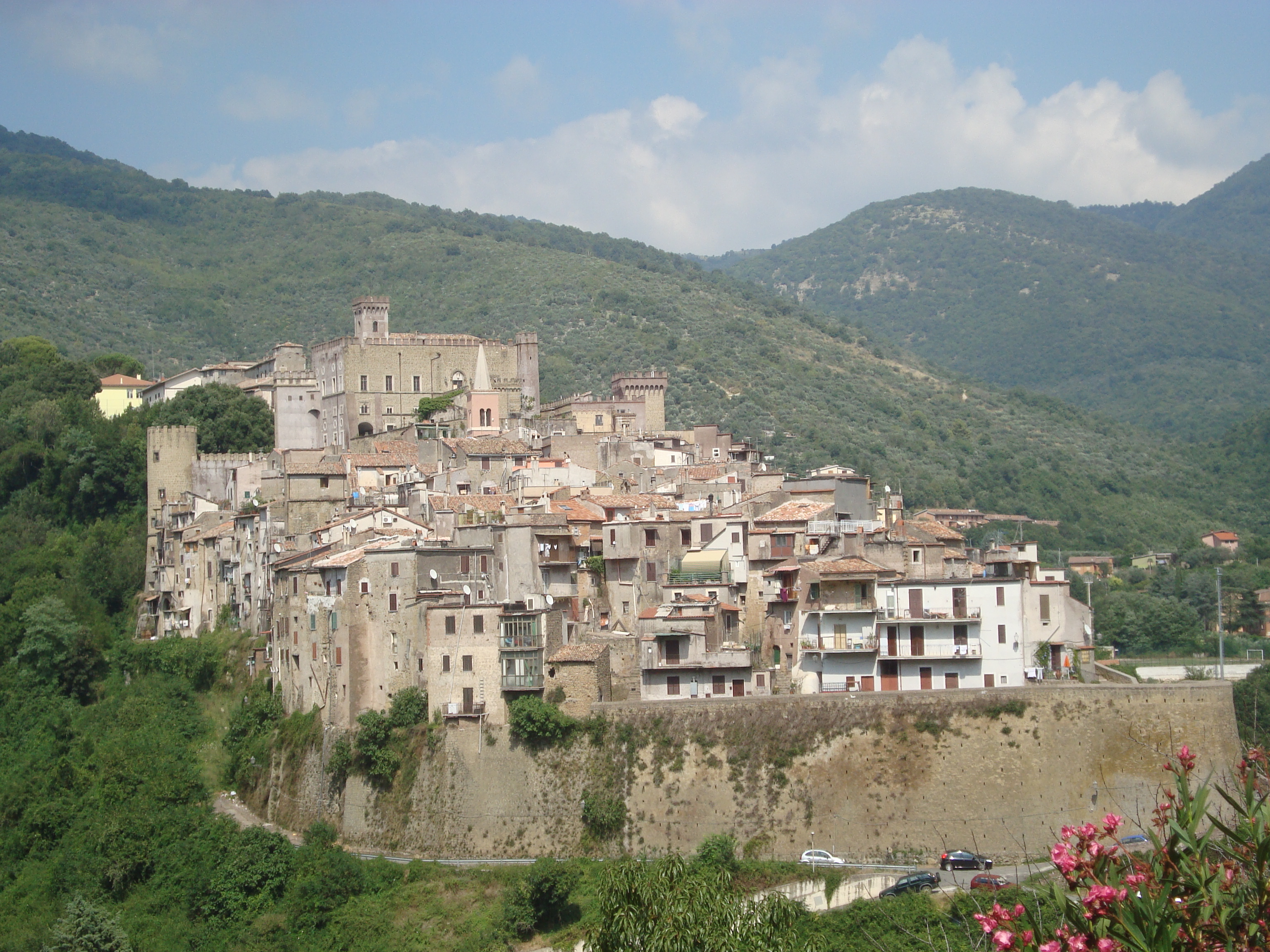 General view of San Gregorio da Sassola